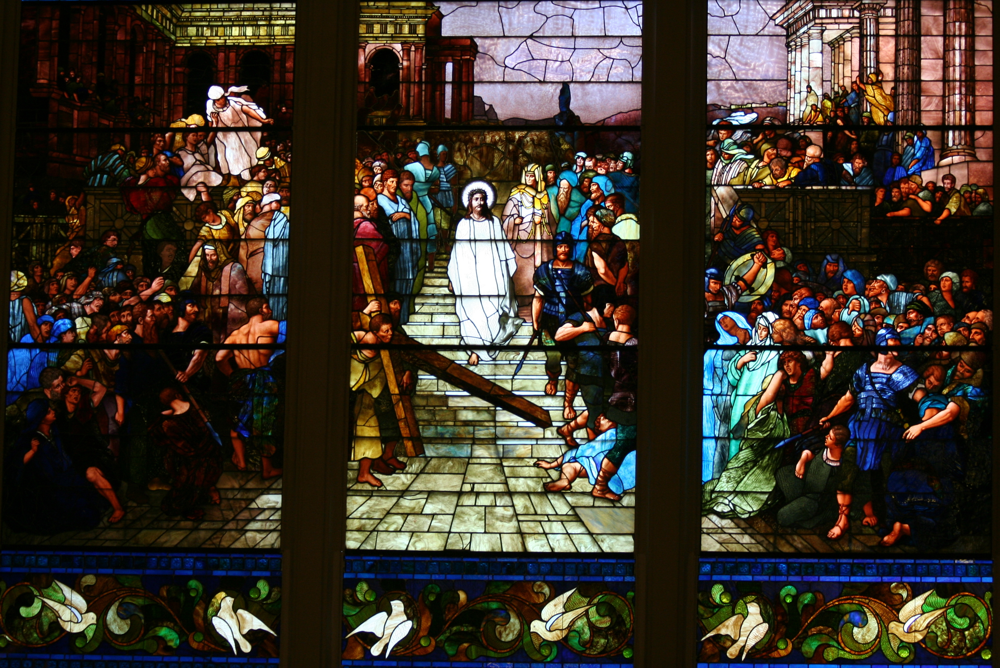 Large Tiffany stained glass window after Gustave Dore's "Christ Leaving the Praetorium" installed in 1884 in St. Paul's Episcopal Church, Milwaukee, Wisconsin